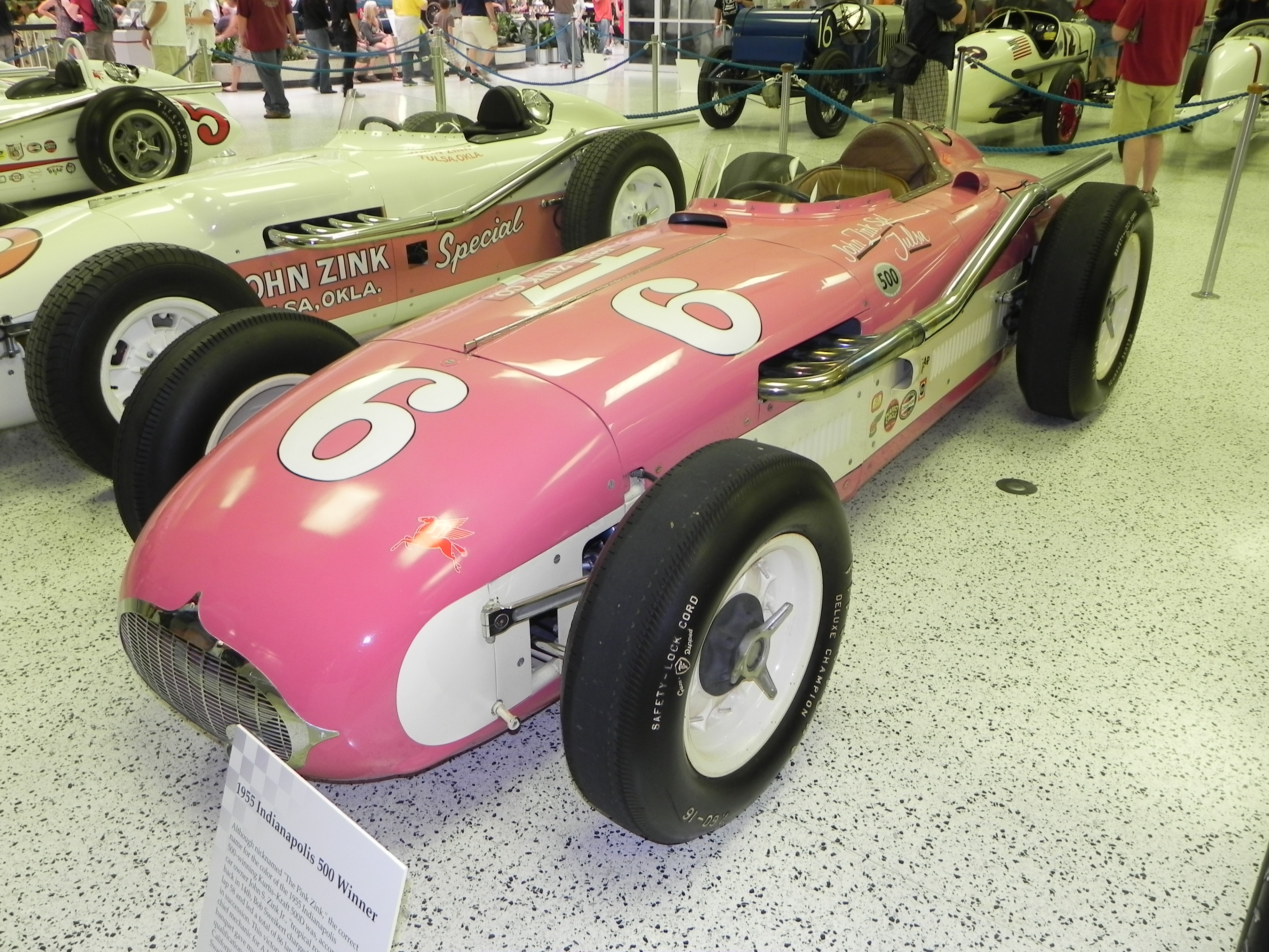 Image of the winning car of the 1955 Indianapolis 500 (Bob Sweikert). Photo was taken at the Indianapolis Motor Speedway Hall of Fame Museum, during the month of May 2011, at the 100th Anniversary "Ultimate Indianapolis 500 Winning Car Collection."